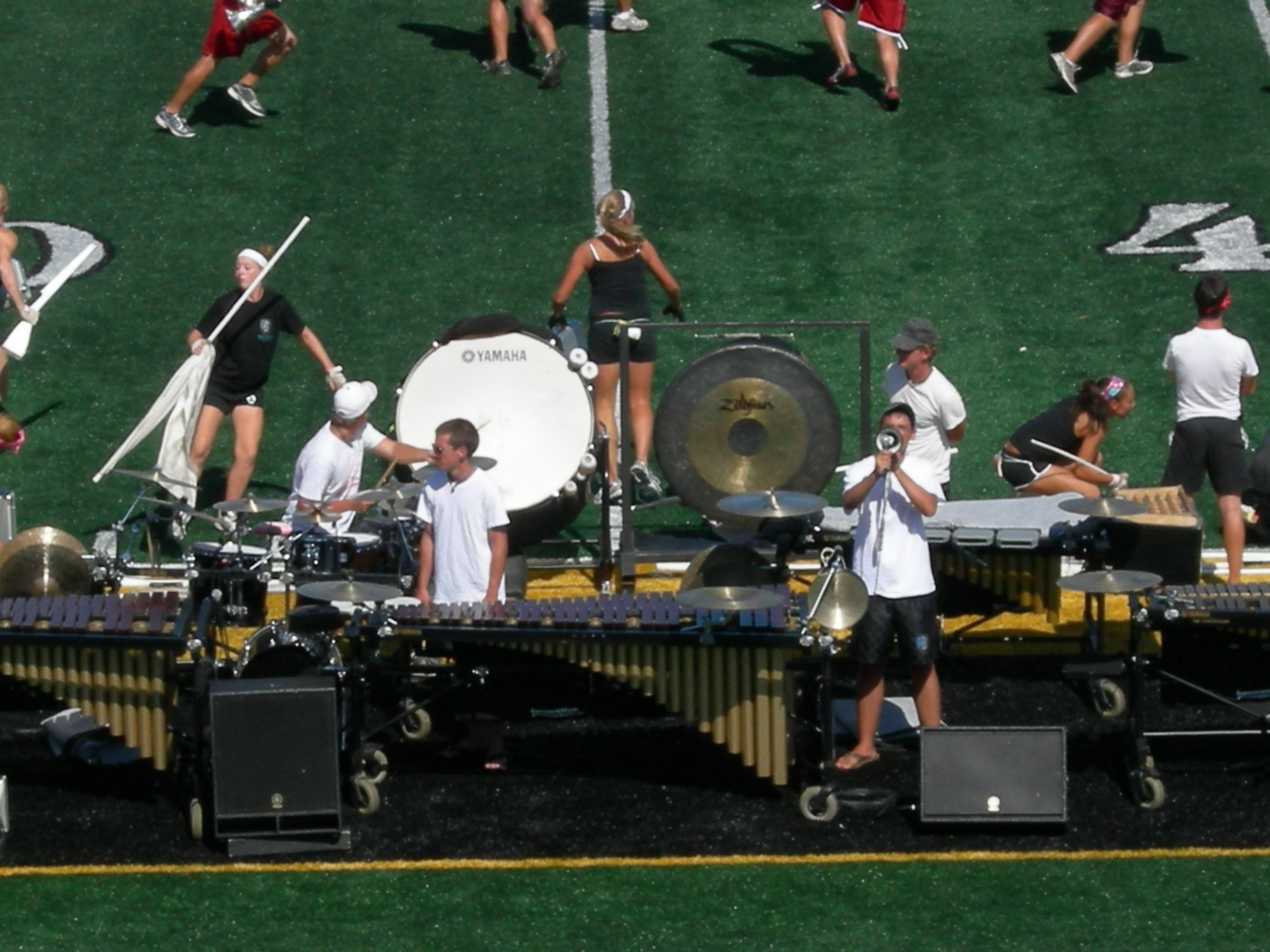 The Bluecoats Drum and Bugle Corps pit at a 2007 clinic